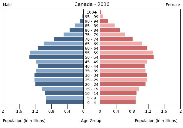 The population pyramid of Canada illustrates the age and sex structure of population and may provide insights about political and social stability, as well as economic development. The population is distributed along the horizontal axis, with males shown on the left and females on the right. The male and female populations are broken down into 5-year age groups represented as horizontal bars along the vertical axis, with the youngest age groups at the bottom and the oldest at the top. The shape of the population pyramid gradually evolves over time based on fertility, mortality, and international migration trends.